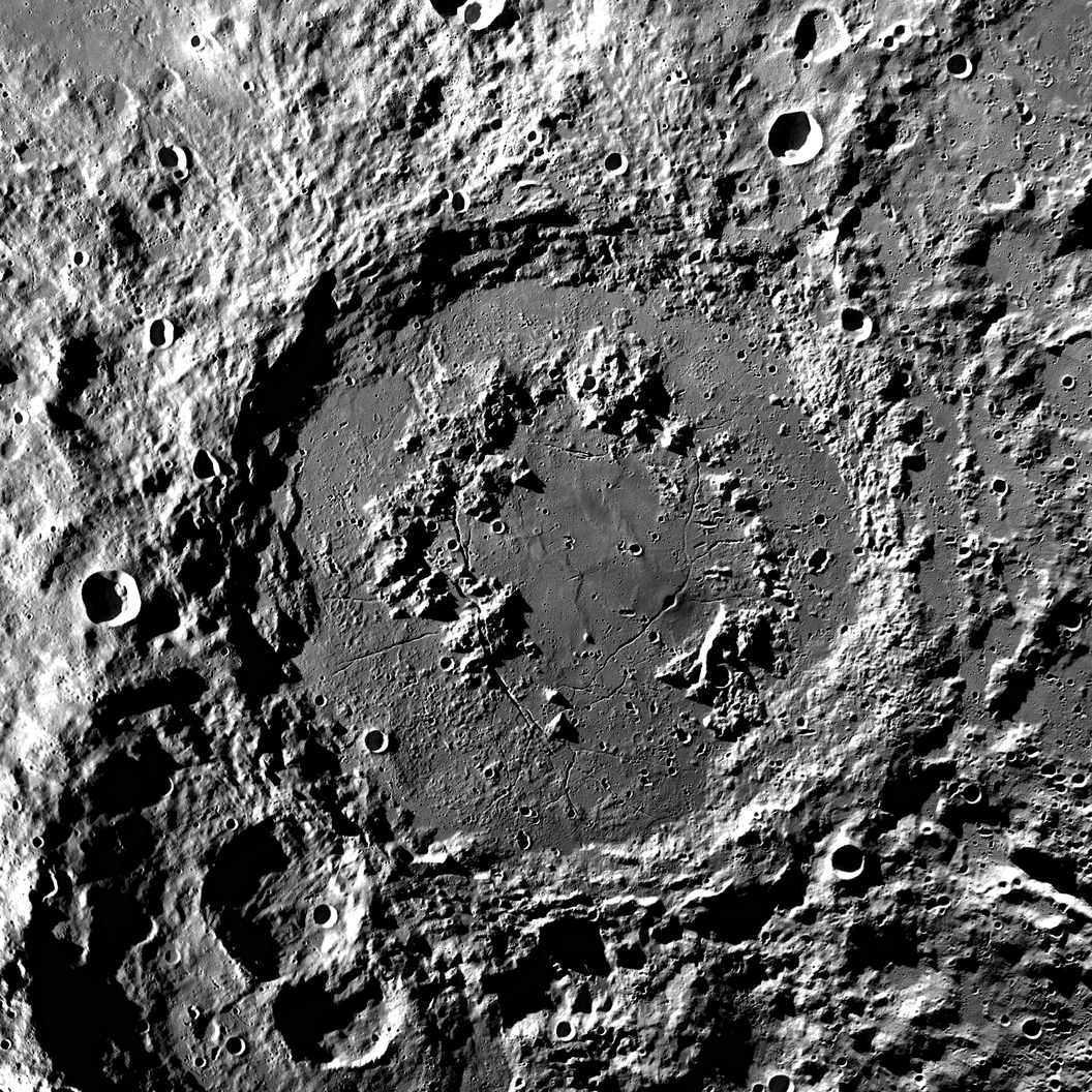 Crater Schrödinger on the Moon, in southern part of the far side. Mosaic of photos by Lunar Reconnaissance Orbiter, made with Wide Angle Camera. Size of the image is 500×500 km, north is up.